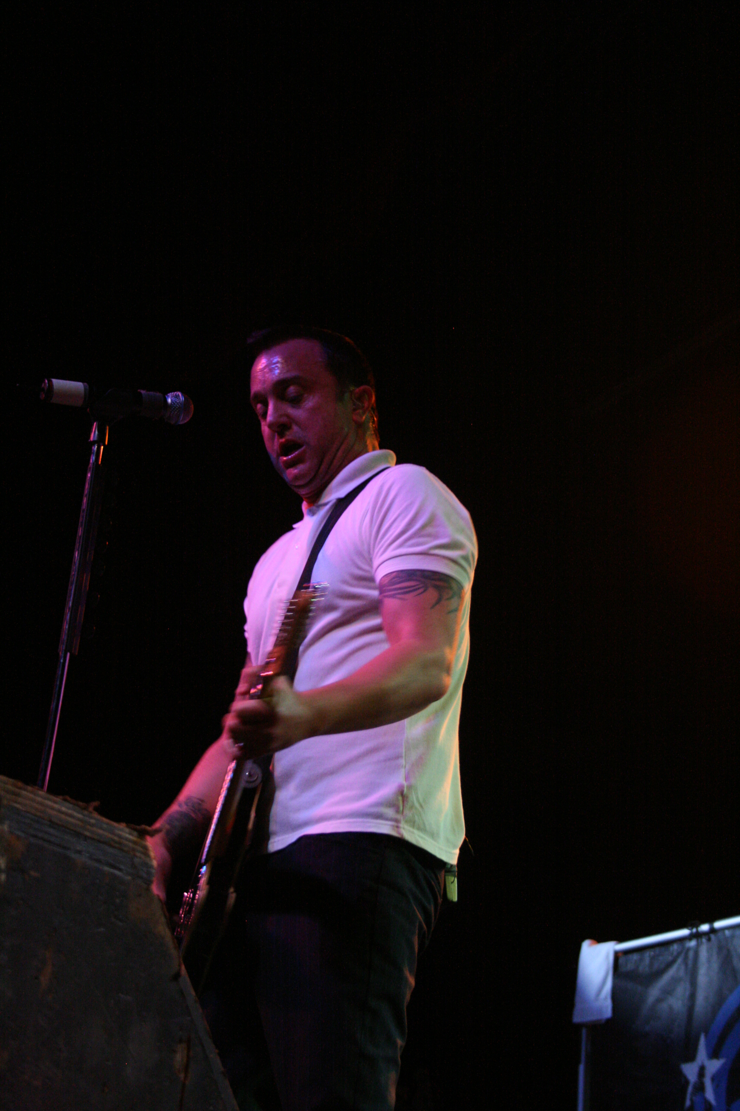 John Feldmann of Goldfinger (band)